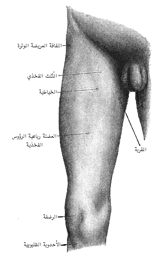 Front and medial aspect of right thigh.